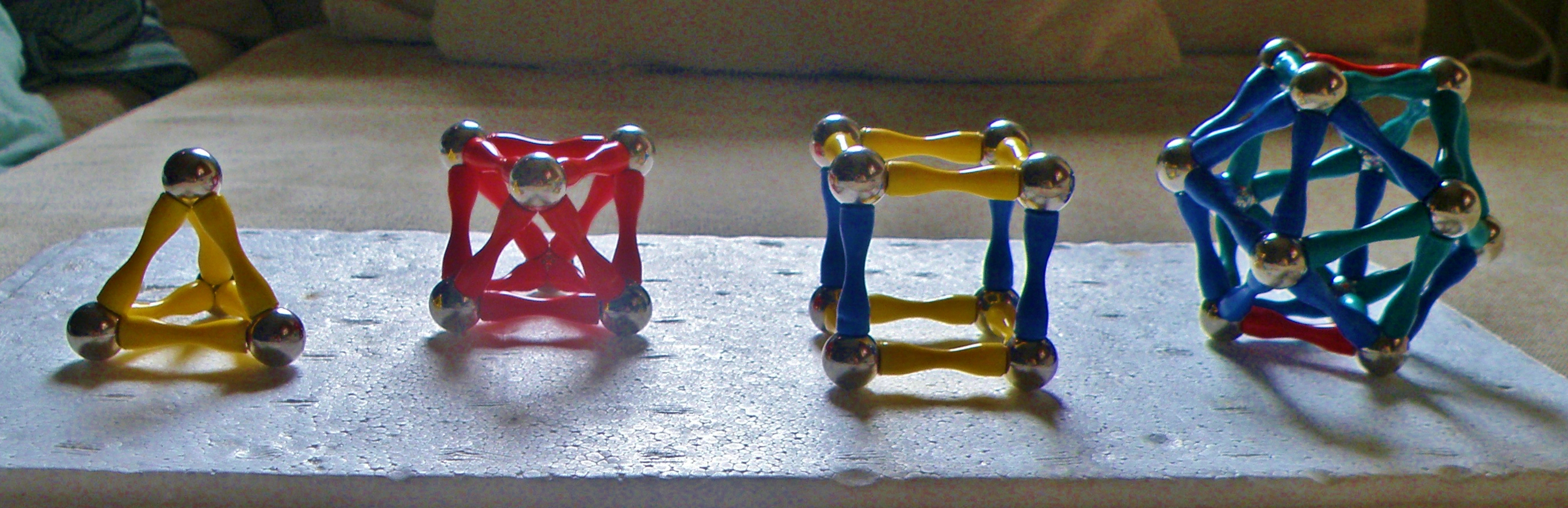 Left to right: Tetrahedron, Octahedron, Hexahedron, Icosahedron